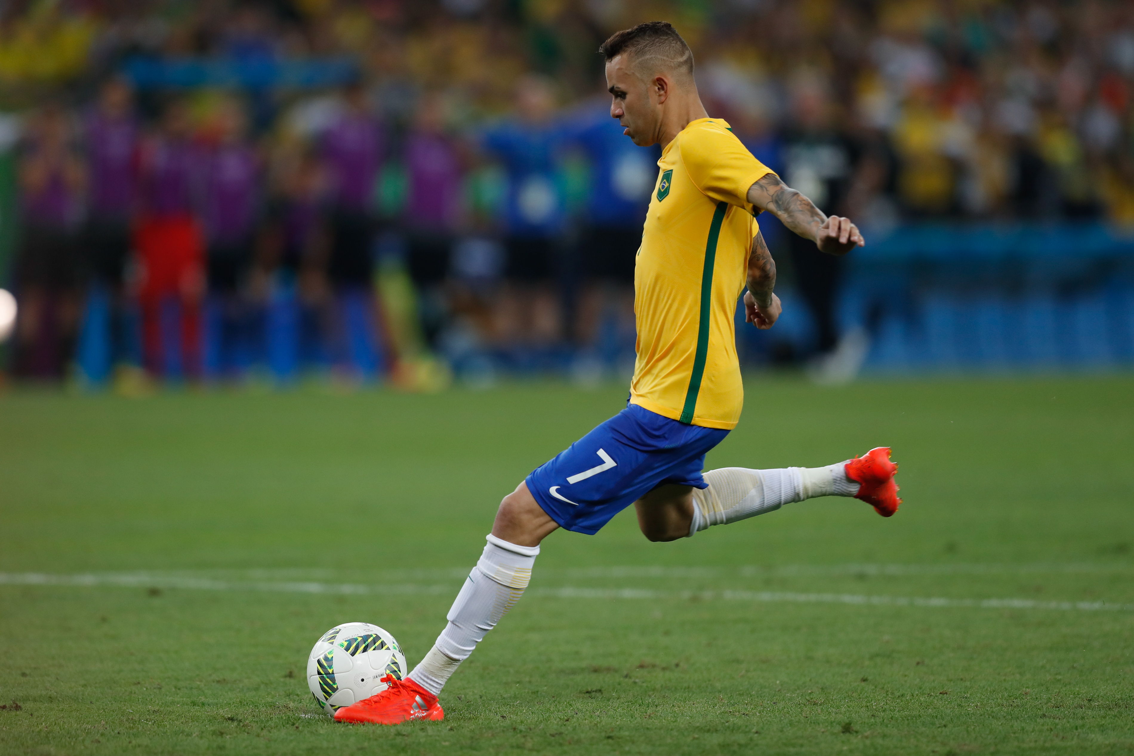 Rio de Janeiro - Brasil vence Alemanha e conquista primeiro ouro olímpico do futebol (Fernando Frazão/Agência Brasil)